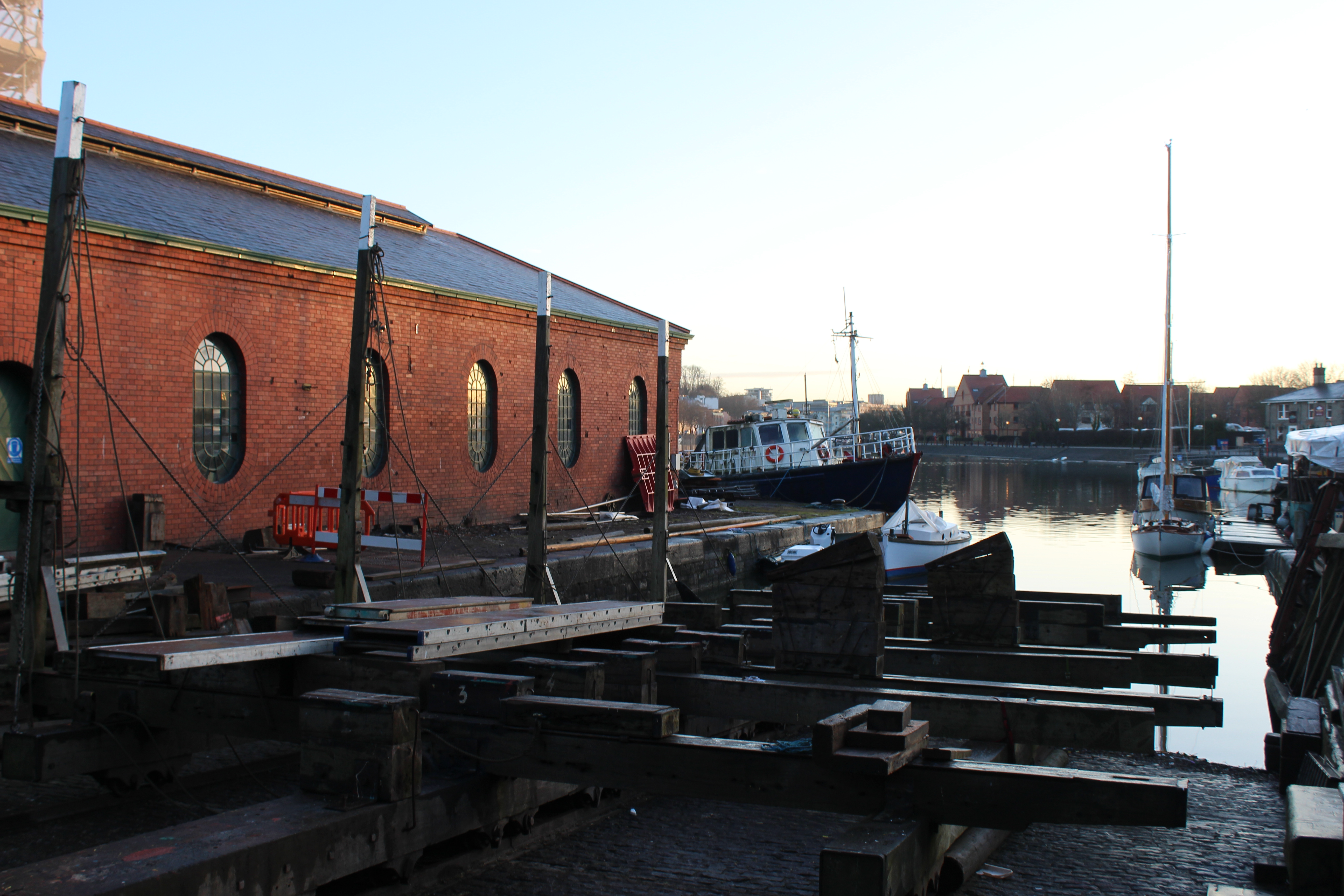 Imade depicting the Underfall Yard Patent Slip , built in the 1890s